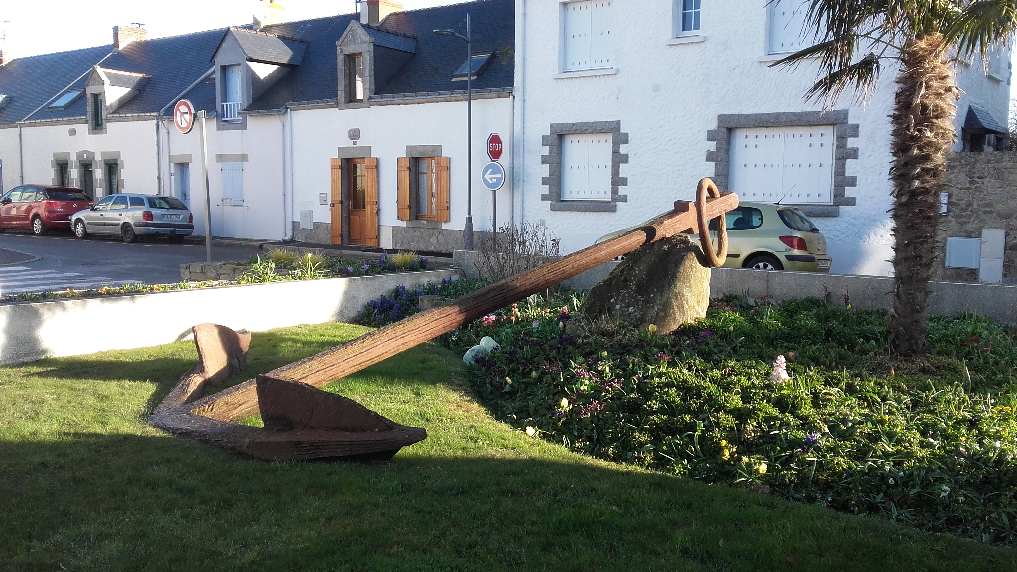 Anchor supposed to have belonged to the ship L'Eveillé (64 guns), a protagonist of the Battle of Quiberon Bay (November 20, 1759). It was fished up at the entrance to the Vilaine in August 1969, by the owner Yvon Joncour, and crew of the trawler at La Turballe Dohé. It is located at the front patio of the Town Hall of La Turballe.